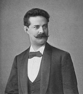 German cellist Heinrich Grünfeld